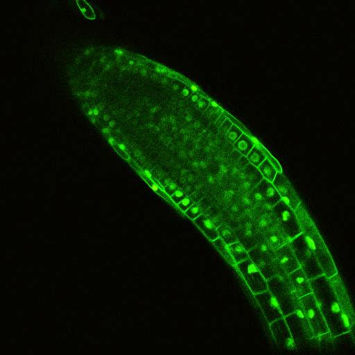 An image of an Arabidopsis thaliana roottip expressing a GFP fusion to His2B. The image was made using a confocal microscope.